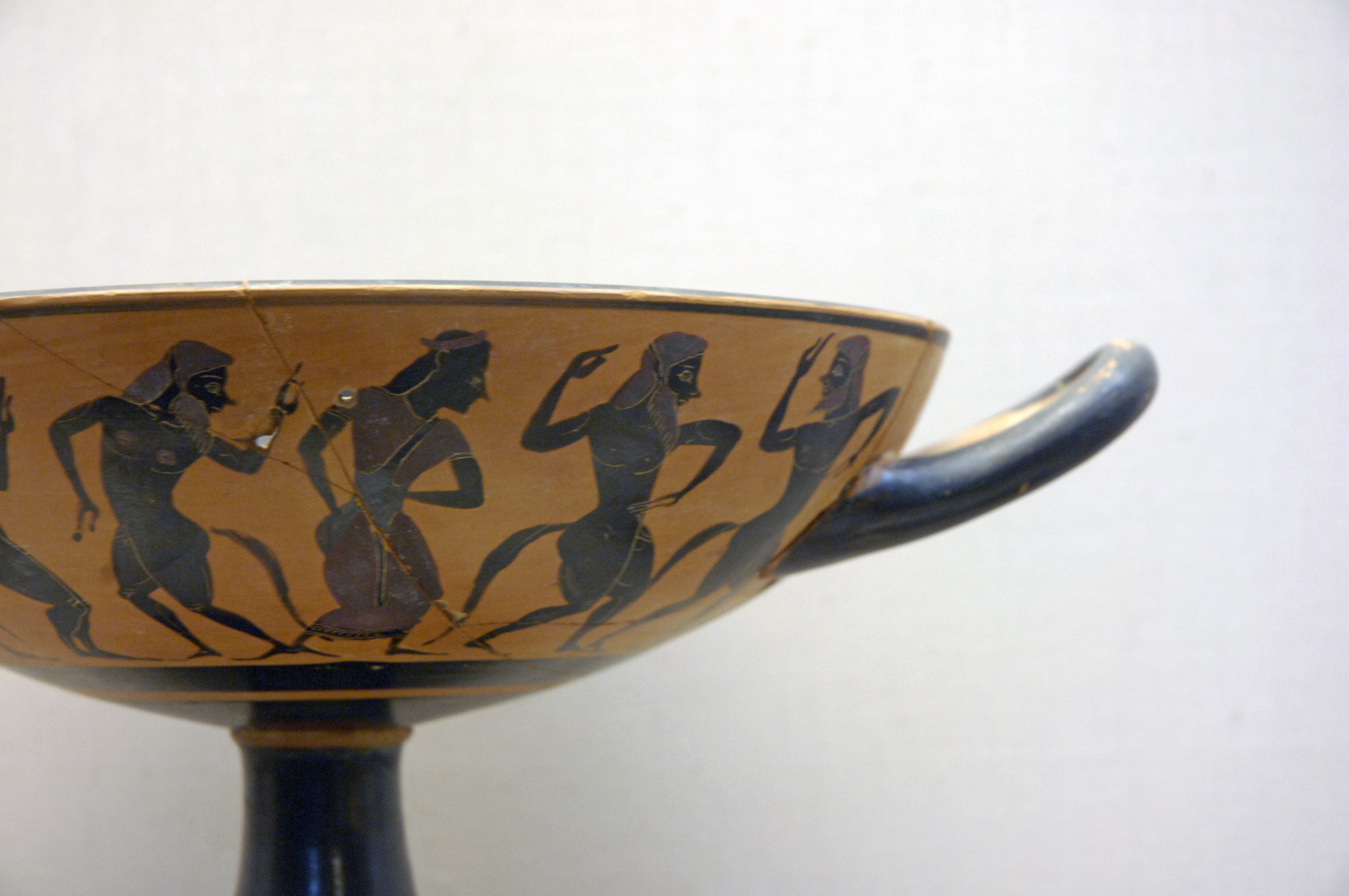 I am very sorry for not having more information on the objects.